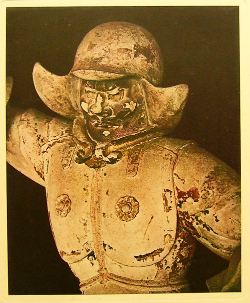 Upper Part of Antera: One of Tweleve Heavenly Guardians Statues. Clay, Total 155 cm height, 8th century, Nata Period, Shin_Yakushi-ji, Nara, Japan